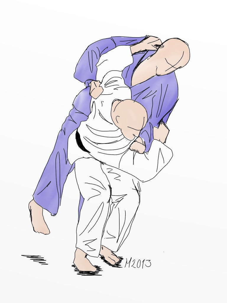 Illustration of the judo throw tsuri-komi-goshi, a hip-throw where you hold the standard sleeve-lapel-grip.